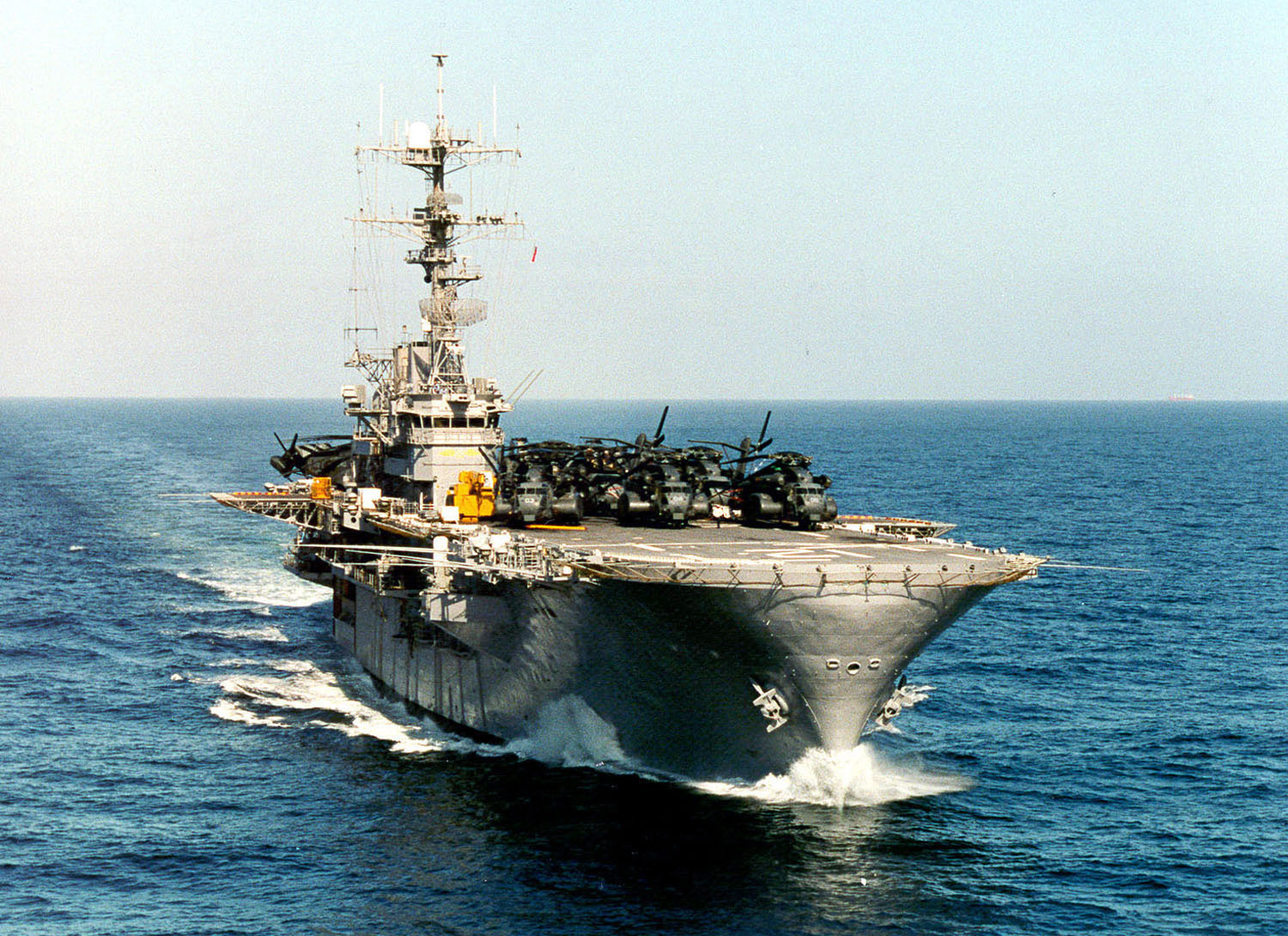 At sea with USS Inchon (MCS 12) Mar. 1, 1999 – The mine countermeasure support ship underway for a scheduled five-month deployment to the Arabian Gulf and the Mediterranean Sea. Inchon is the only ship of its class. US Navy photo by Photographer’s Mate 1st Class Sean P. Jordan. (RELEASED)